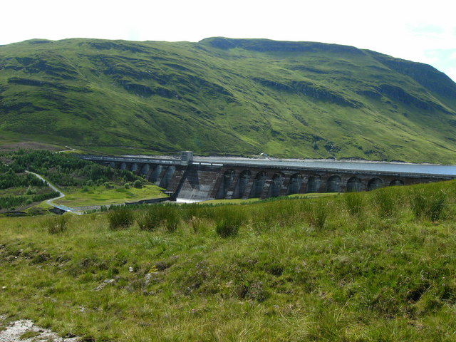 Loch An Daimh dam. Loch An Daimh dam, when this structure was created the two former lochs Giorra and Daimh became one and raised the water level to over 1400 feet above sea level.